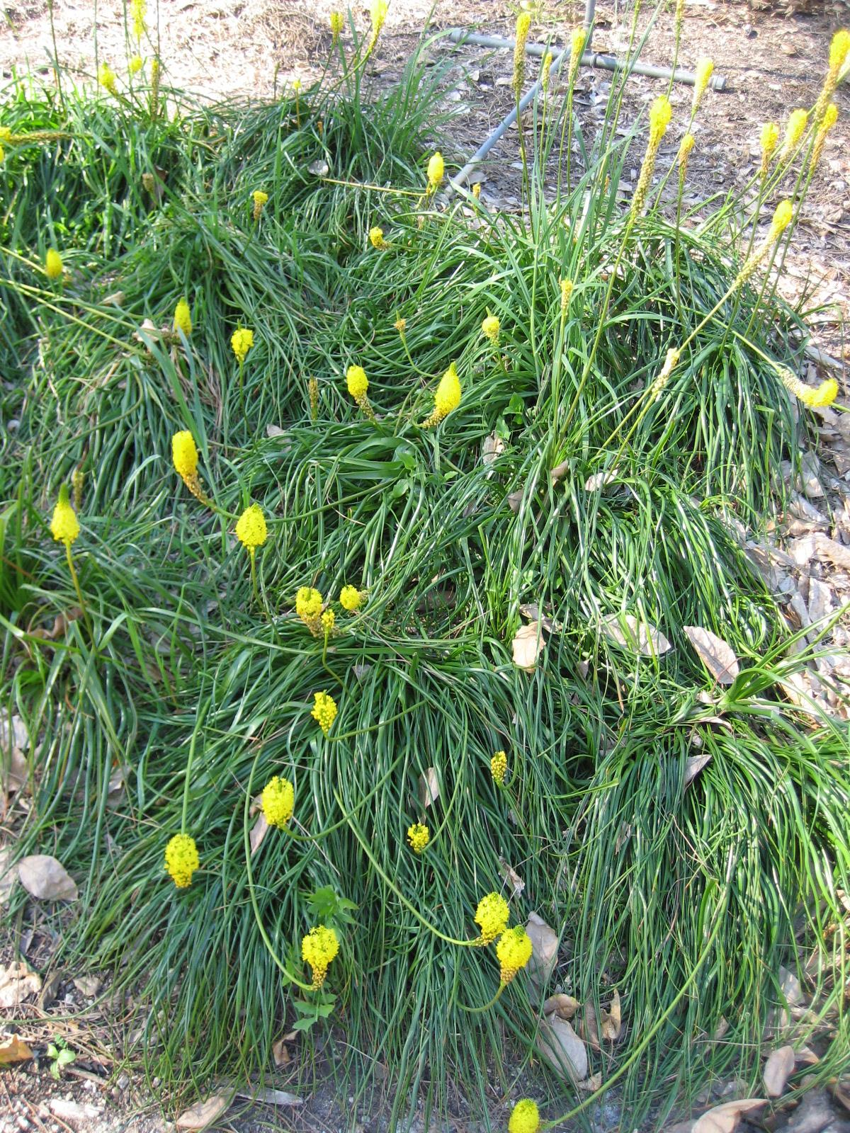 Photographed at Huntington Gardens (Los Angeles) in March